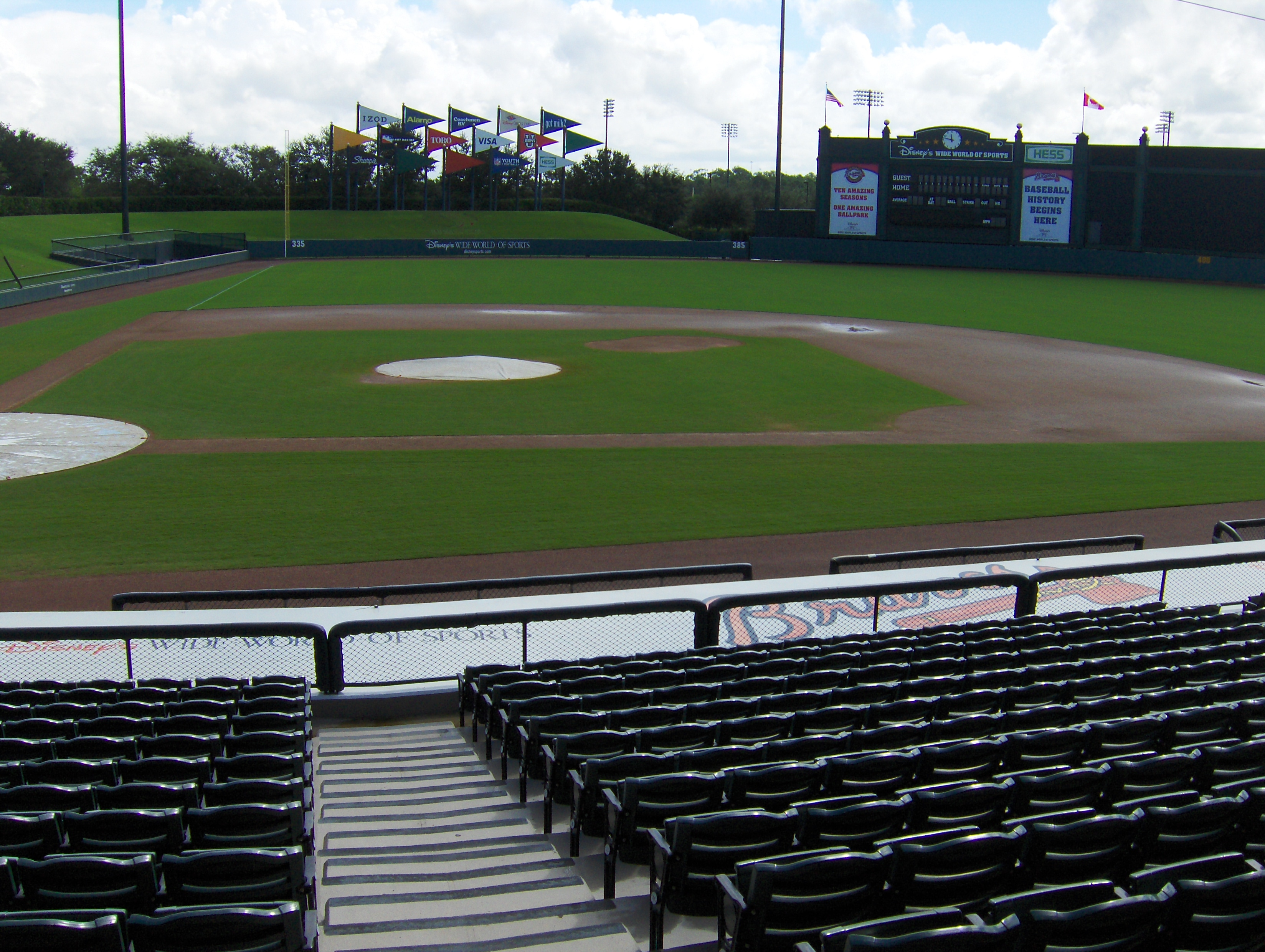 The Atlanta Braves play at Disney's Wide World Of Sports for spring training.